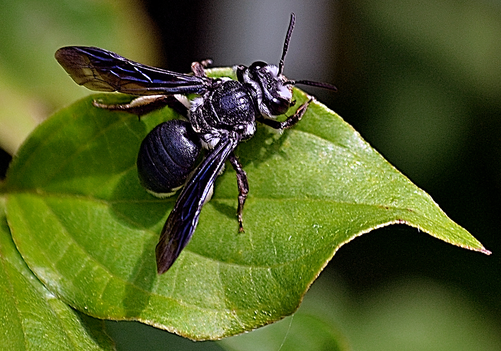 From Torà (Catalonia, Spain) Andrena agilissima, female